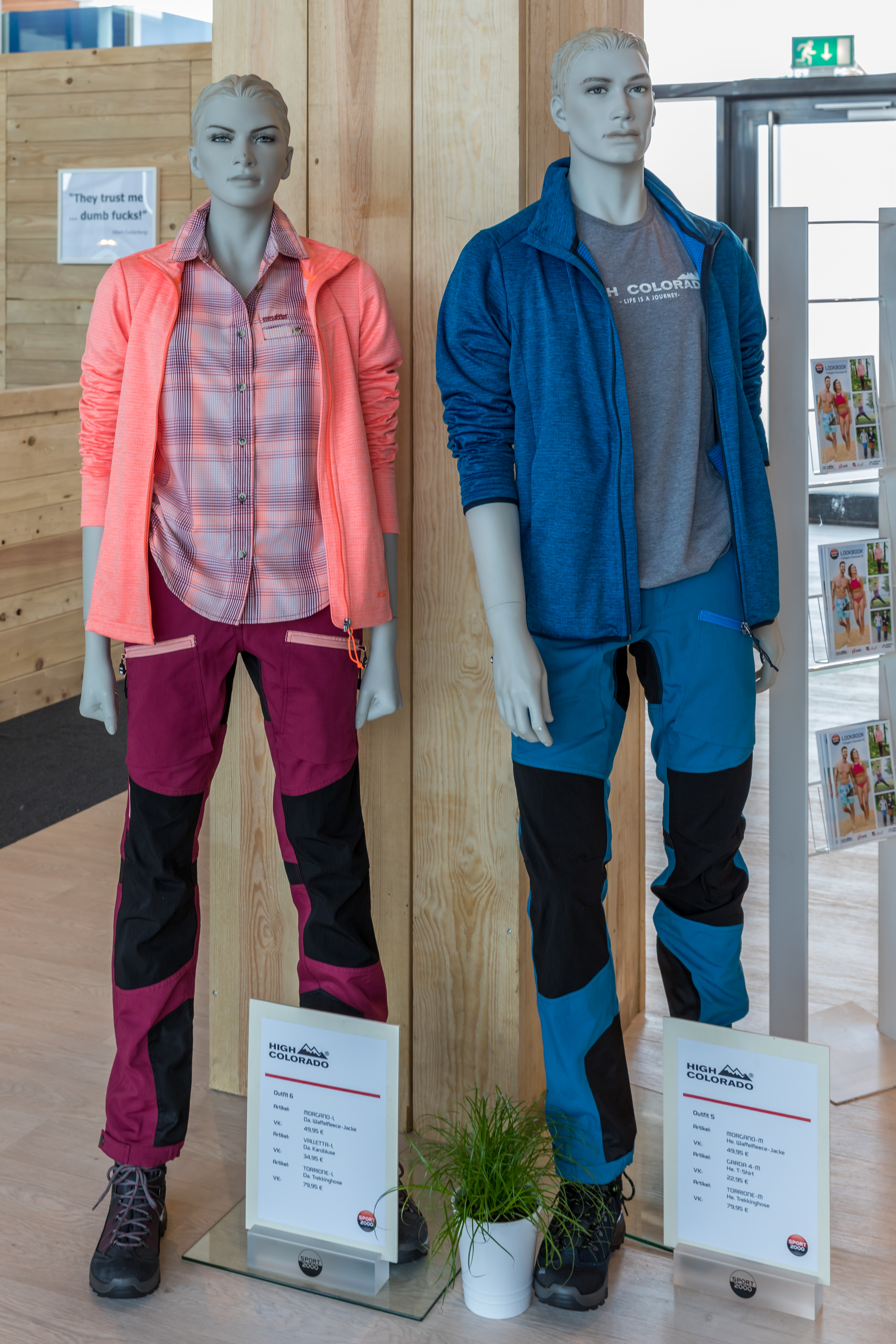 OutDoor 2018